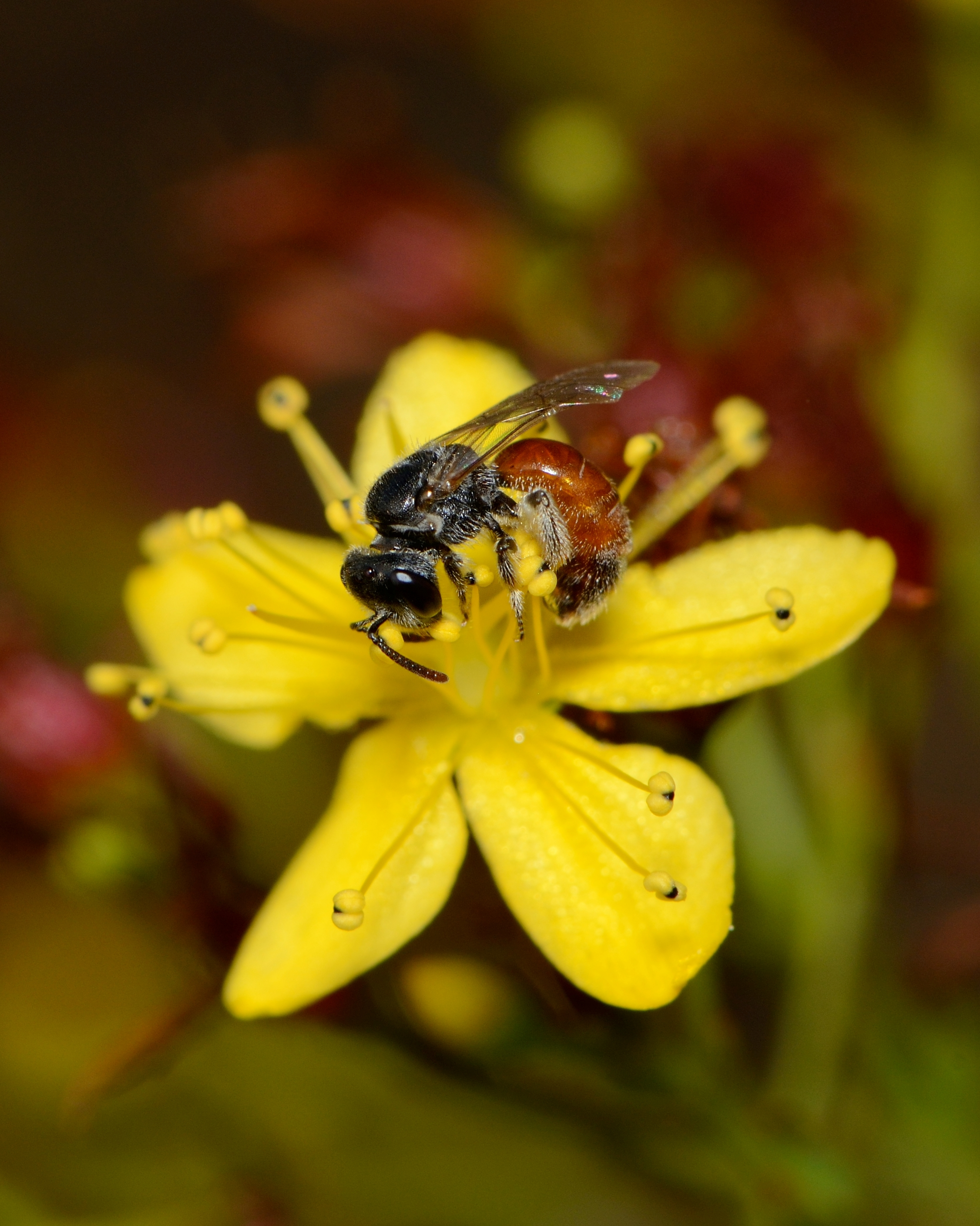 Lasioglossum pseudosphecodimorphum, female collecting pollen from Hypericum triquetrifolium, Mount Carmel, Israel, July 24, 2012.